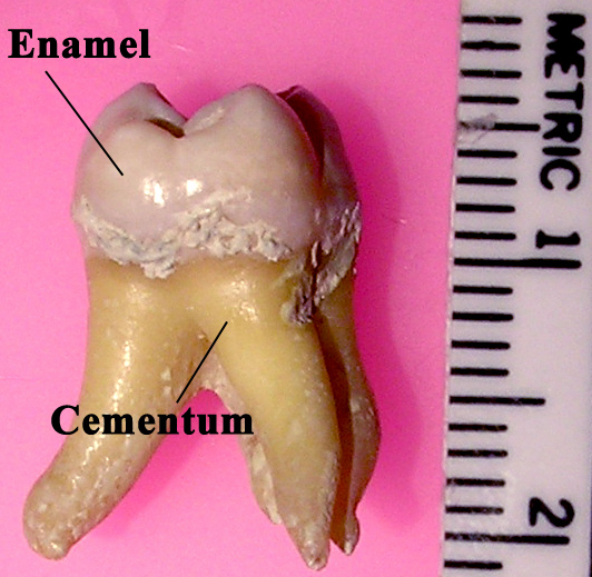 Labeled maxillary molar